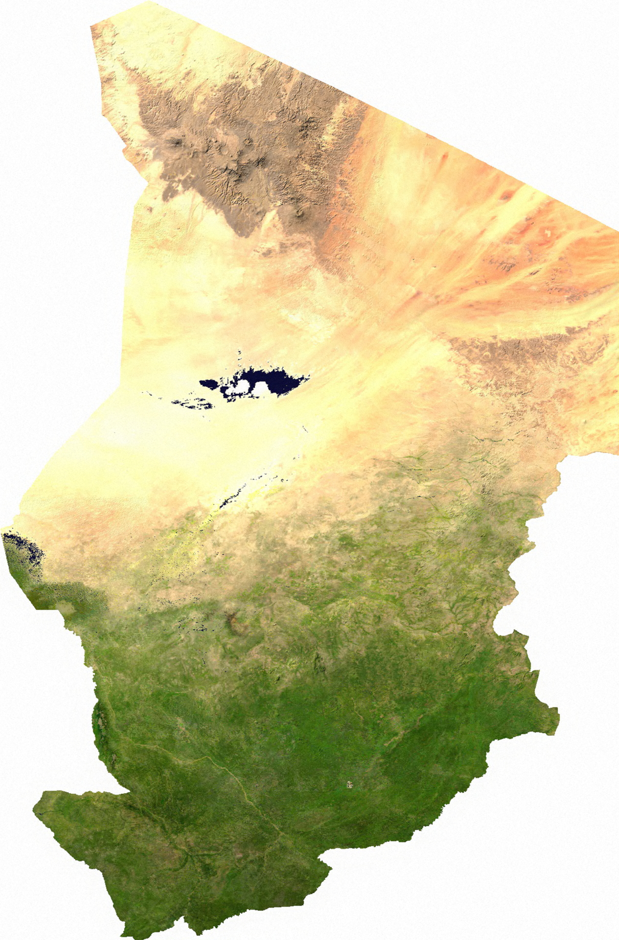 ECW to TIFF to JPEG (100% quality; progressive formatting).